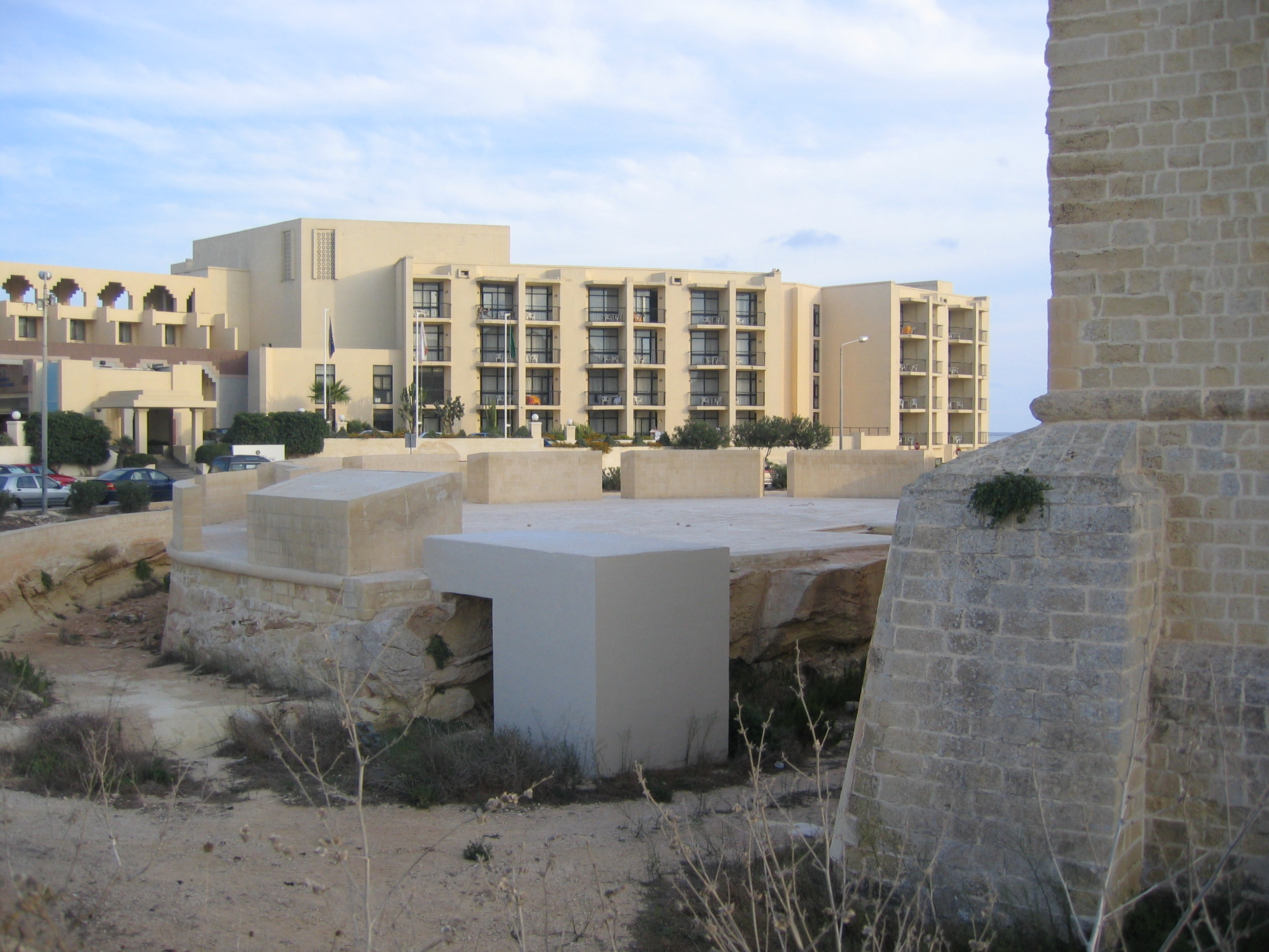 St Thomas Tower, Malta. The "restored" battery Copyright H.J.Moyes